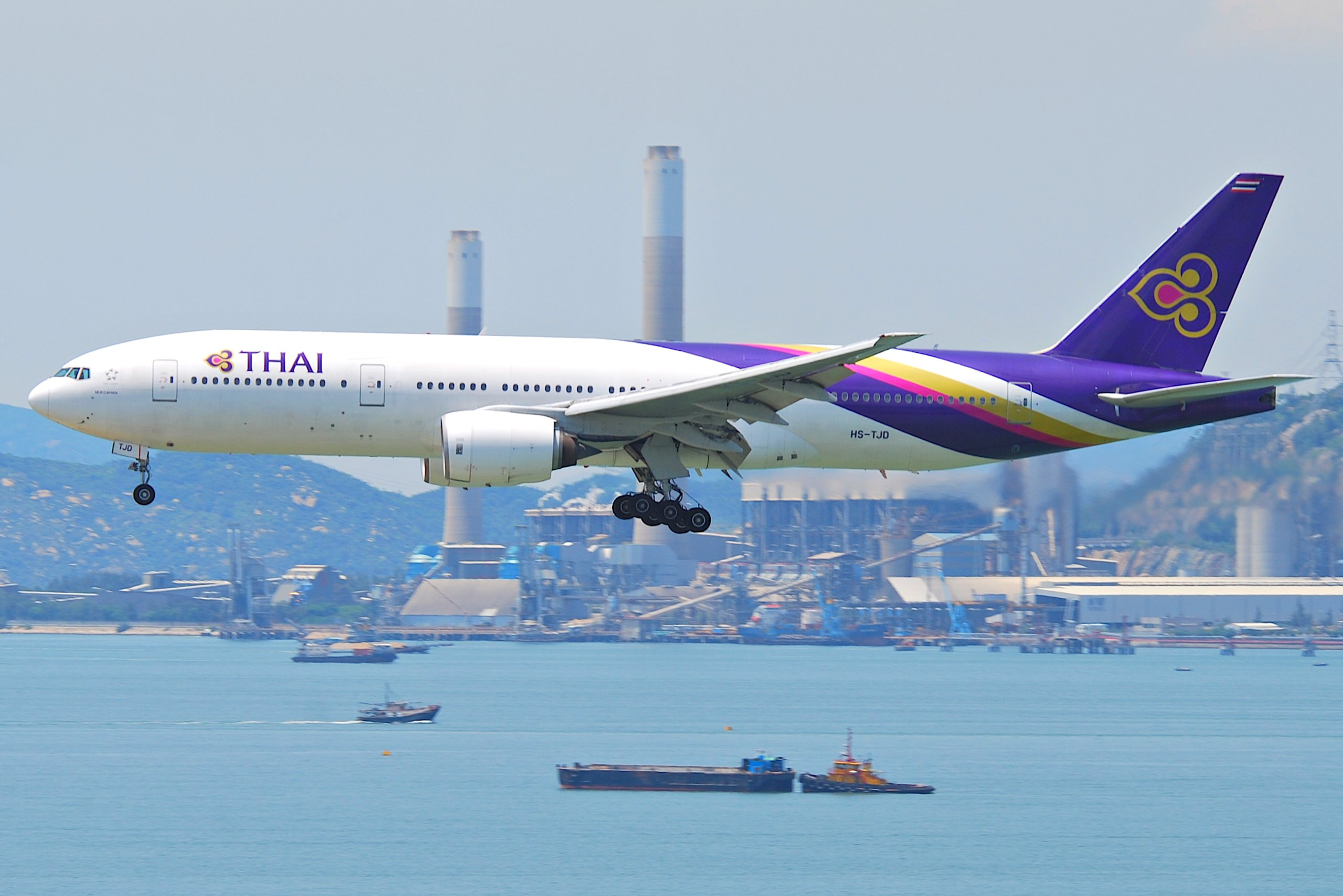 This Boeing 777-2D7 took its first flight on December 10, 1996...(c/n 27729/ 51)